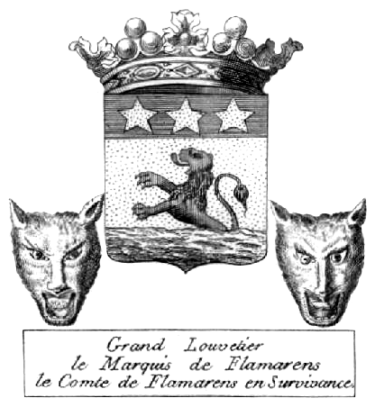 The coat of arms of The Marquis of Flamarens, The Count of Flamarens, Grand Wolfcatcher and Survivalist